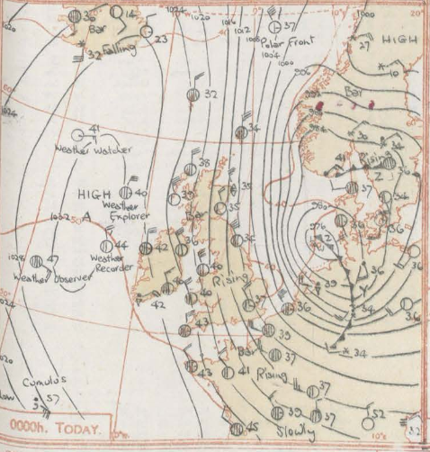 Synoptic chart at midnight 1 February 1953 Met Office Daily Weather Report